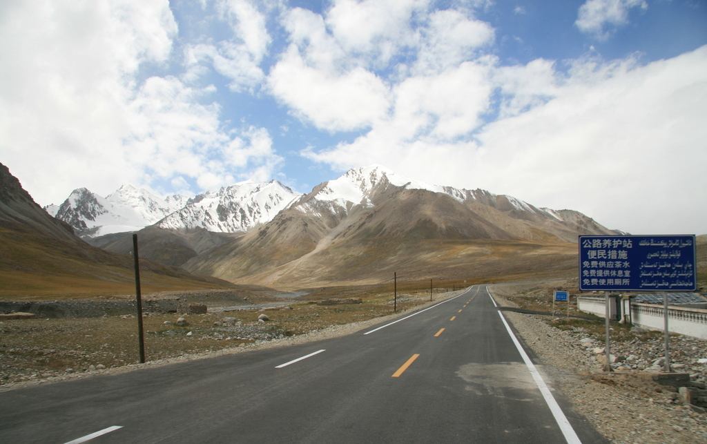 Karakoram Highway over Khunjerab Pass between China and Pakistan is the highest elevation International Border Crossing in the World.